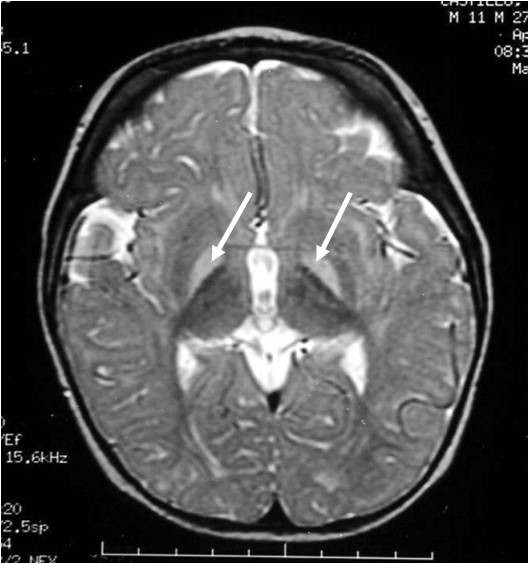 Magnetic resonance imaging of the head. Hyperintense basal ganglia lesions on T2-weighted images.